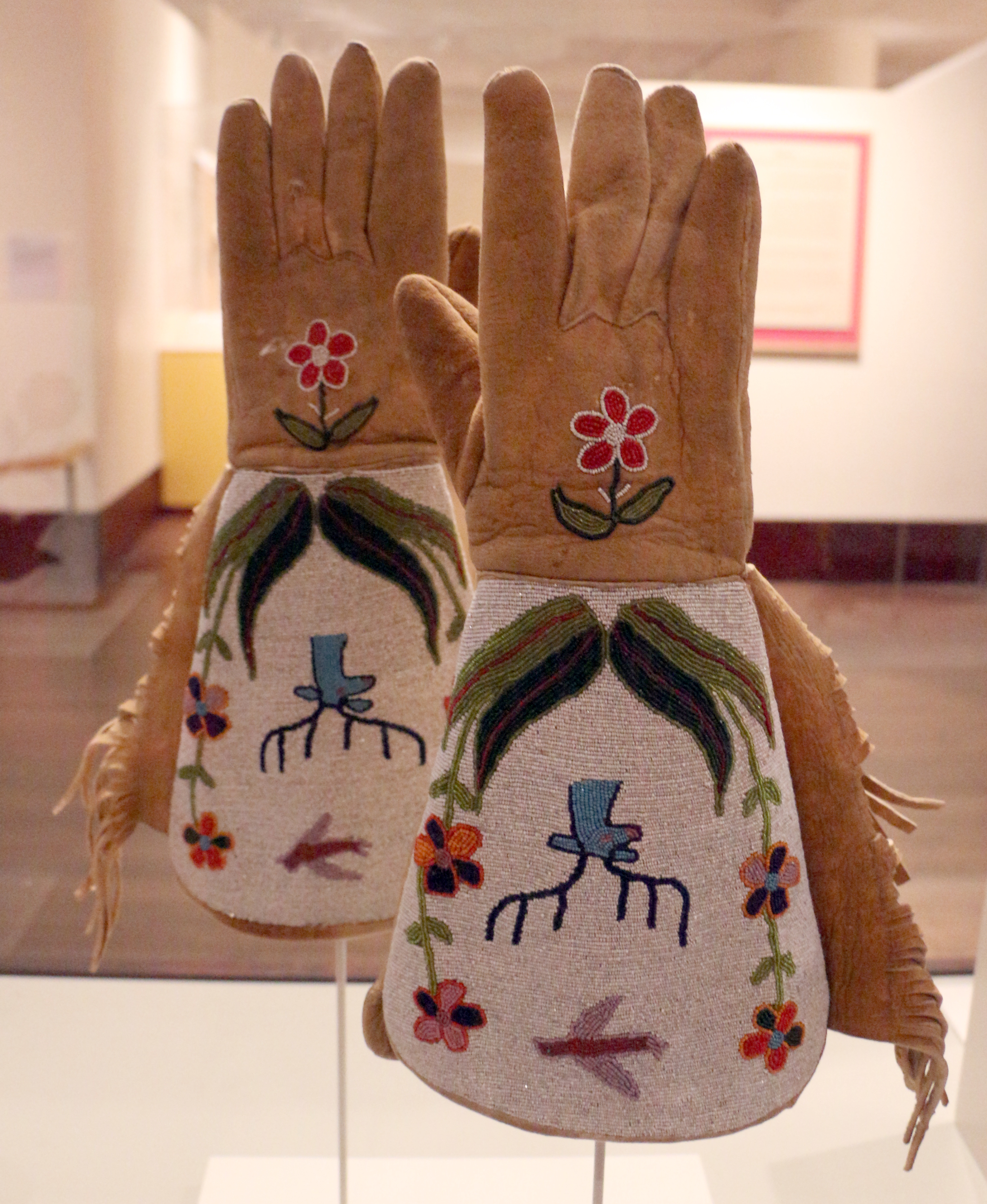 Collections of the Eiteljorg Museum